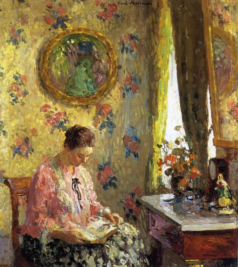 Lady reading